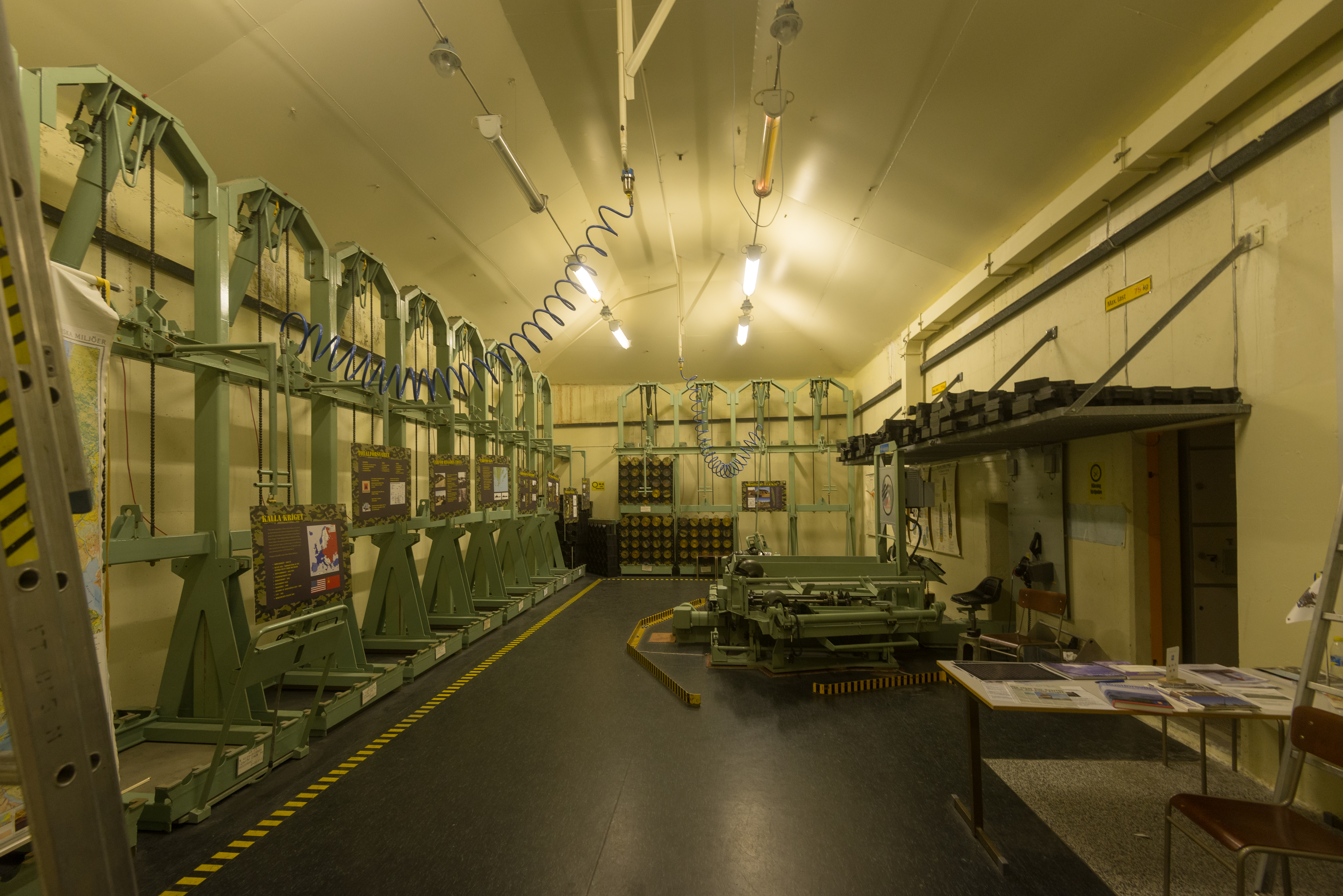 Interior of ERSTA-batteriet (Coastal artillery battery) at Landsort (Öja) in Stockholm archipelago. ERSTA was one of the Cold War’s most advanced military battery.